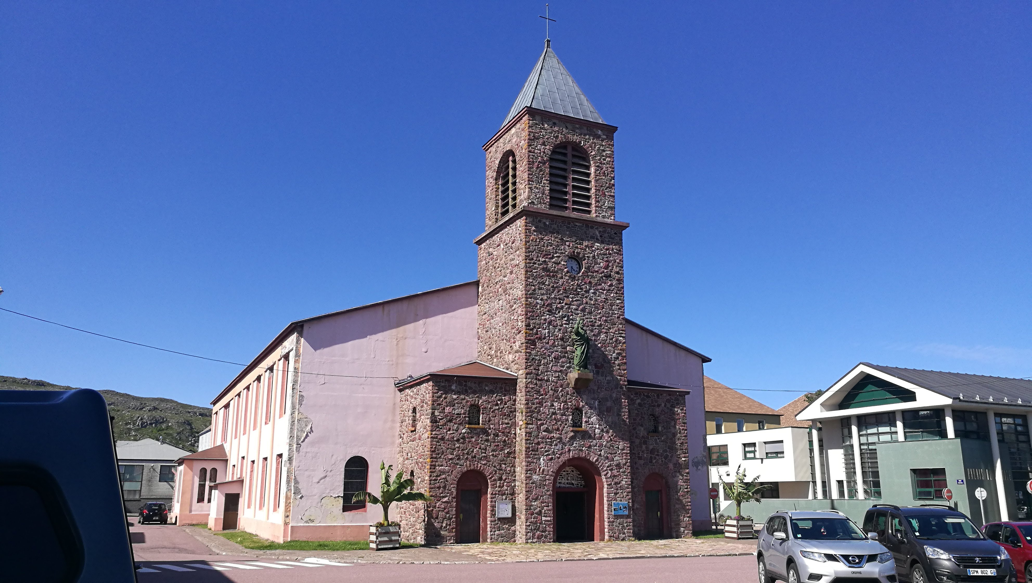 Picture of the cathedral in St Pierre, in the French Overseas Collectivity of St Pierre and Miquelon